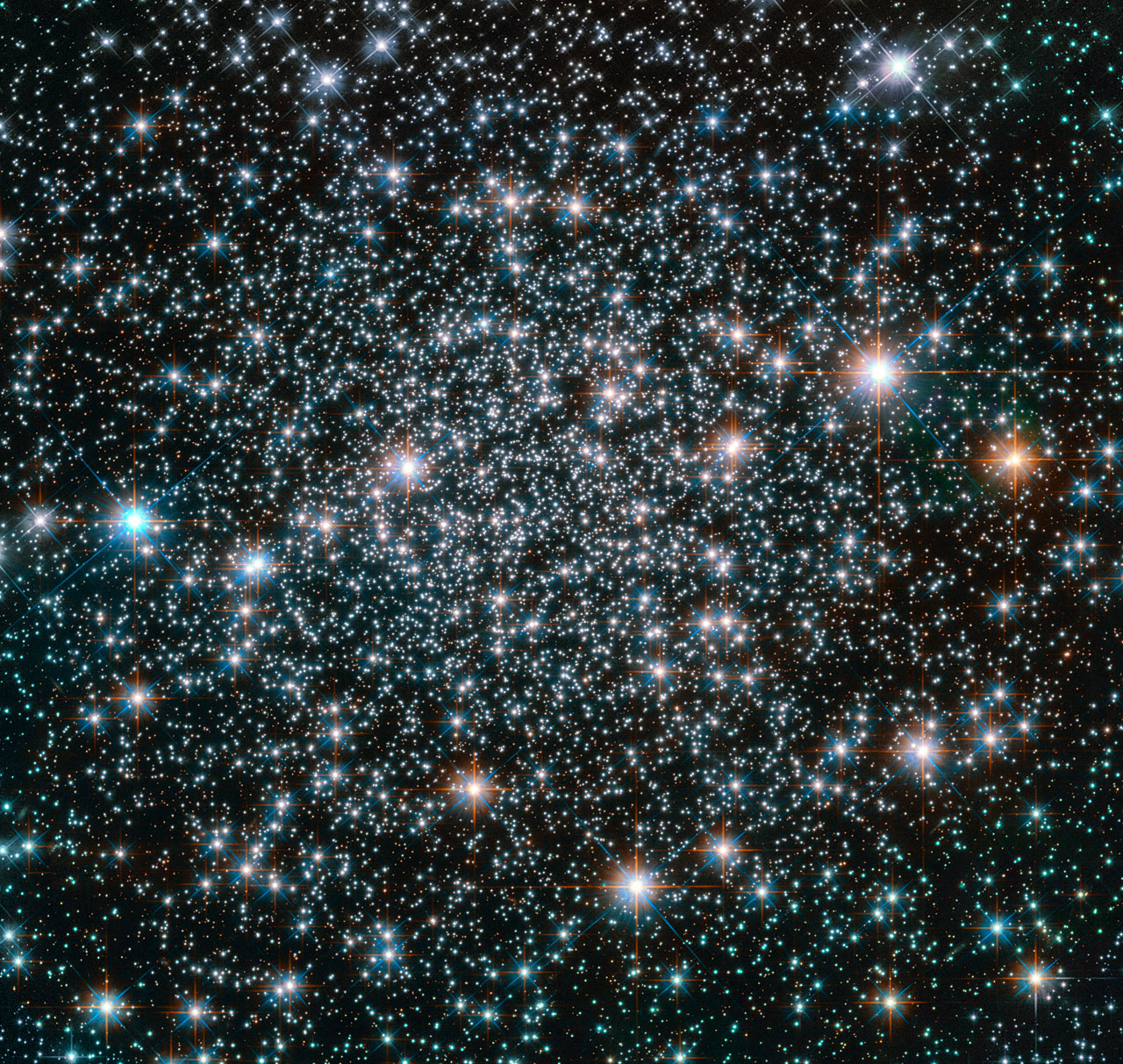 This 10.5-billion-year-old globular cluster, NGC 6496, is home to heavy-metal stars of a celestial kind! The stars comprising this spectacular spherical cluster are enriched with much higher proportions of metals — elements heavier than hydrogen and helium, are in astronomy curiously known as metals — than stars found in similar clusters. A handful of these high-metallicity stars are also variable stars, meaning that their brightness fluctuates over time. NGC 6496 hosts a selection of long-period variables — giant pulsating stars whose brightness can take up to, and even over, a thousand days to change — and short-period eclipsing binaries, which dim when eclipsed by a stellar companion. The nature of the variability of these stars can reveal important information about their mass, radius, luminosity, temperature, composition, and evolution, providing astronomers with measurements that would be difficult or even impossible to obtain through other methods. NGC 6496 was discovered in 1826 by Scottish astronomer James Dunlop. The cluster resides at about 35 000 light-years away in the southern constellation of Scorpius (The Scorpion).